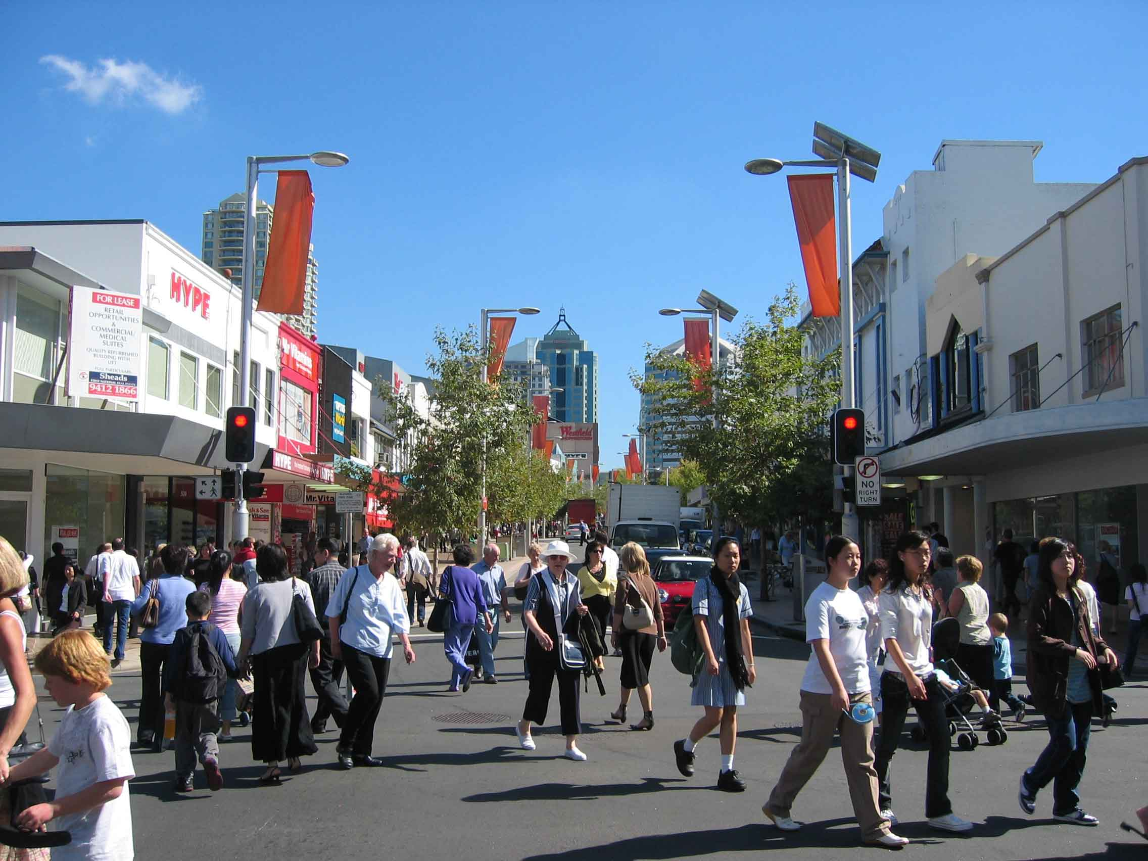 Victoria Av and Archer St, Chatswood Sydney Australia, looking towards Chatswood Station, taken 2005-04-06. This is an updated photo of Image:20031229-Chatswood.jpg to show changes over time.